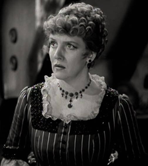 Helen Flint in Little Lord Fauntleroy - cropped screenshot